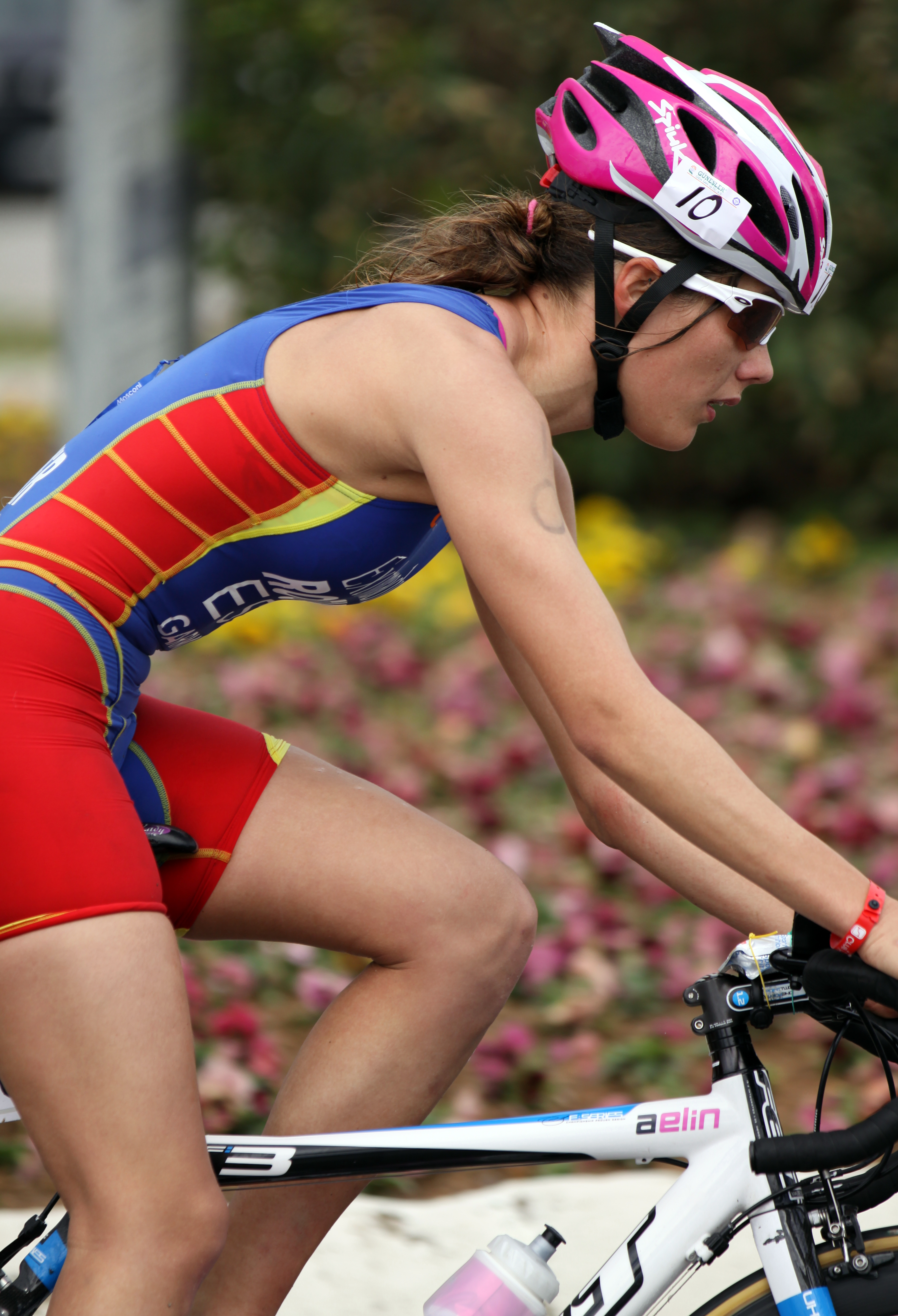 Carolina ROUTIER at the European Cup triathlon in Antalya 2011.